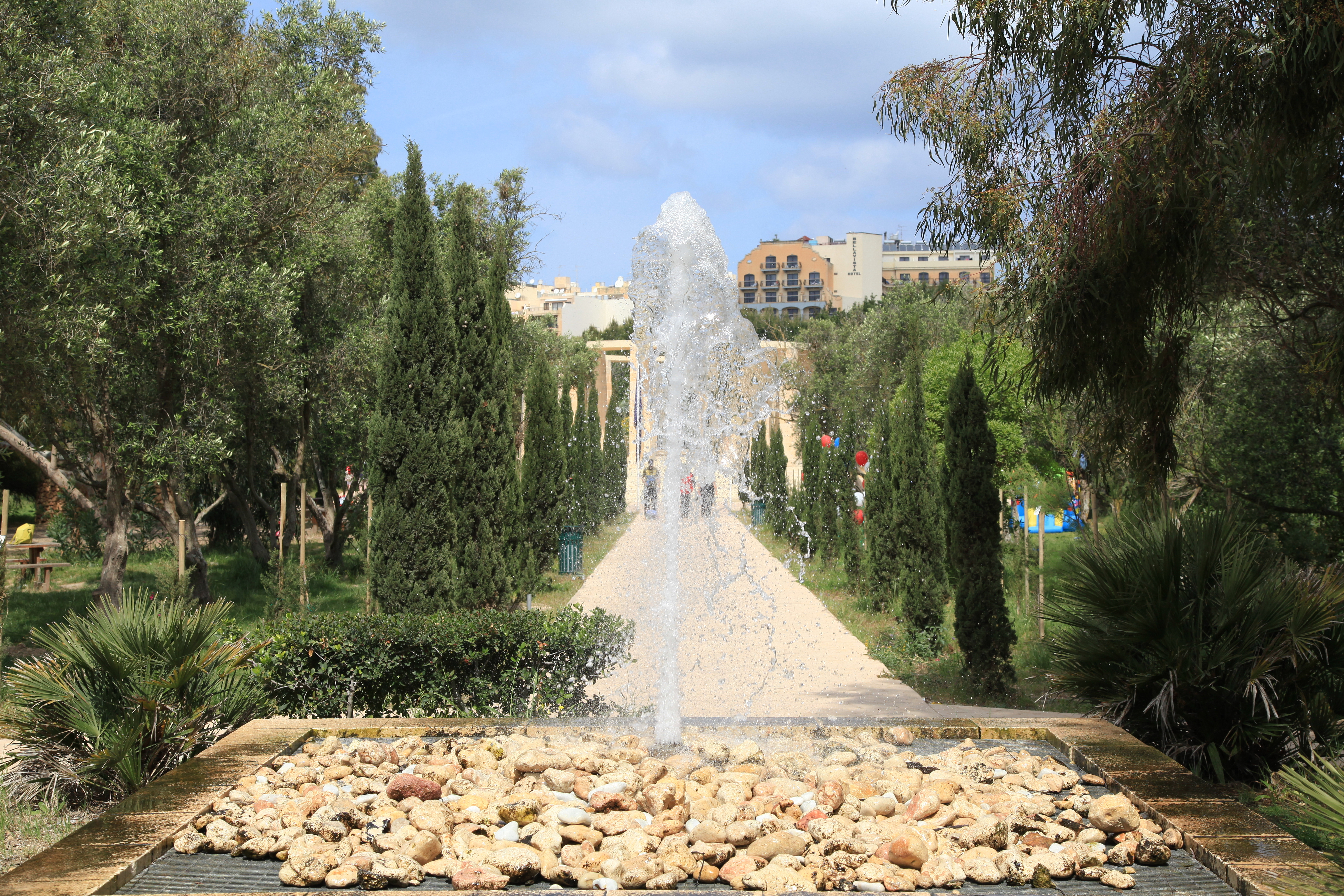 Kennedy Grove at Triq is-Salini in St. Paul's Bay, Malta